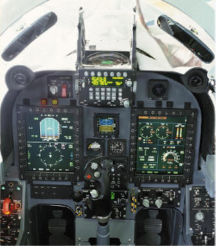 F5-EM